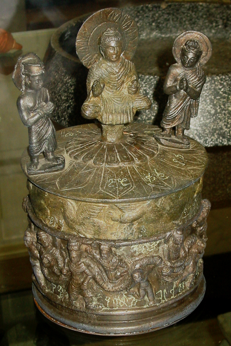 The Kanishka Casket in the British Museum. The band of flying geese is a common Greco-Scythian motif (Boardman, The Origins of Indian Stone Architecture, P.18 and Note 23). Greco-Scythian vase with rows of flying geese 5th-4th centuries BCE back.